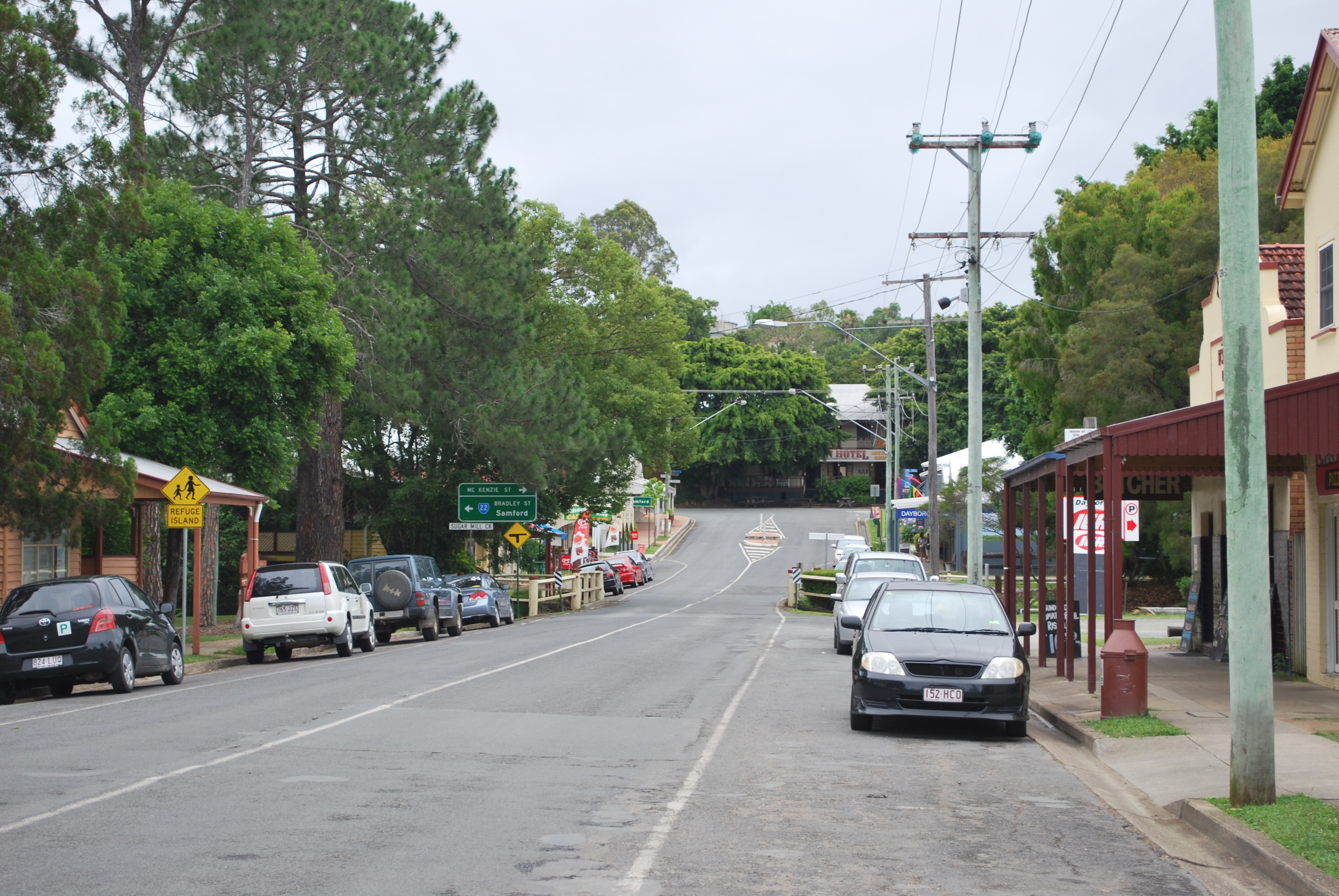 Williams St, the main street of Dayboro, Queensland